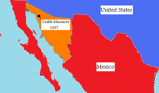 A map showing the location of the Crabb Massacre at Caborca, Sonora, Mexico in 1857.